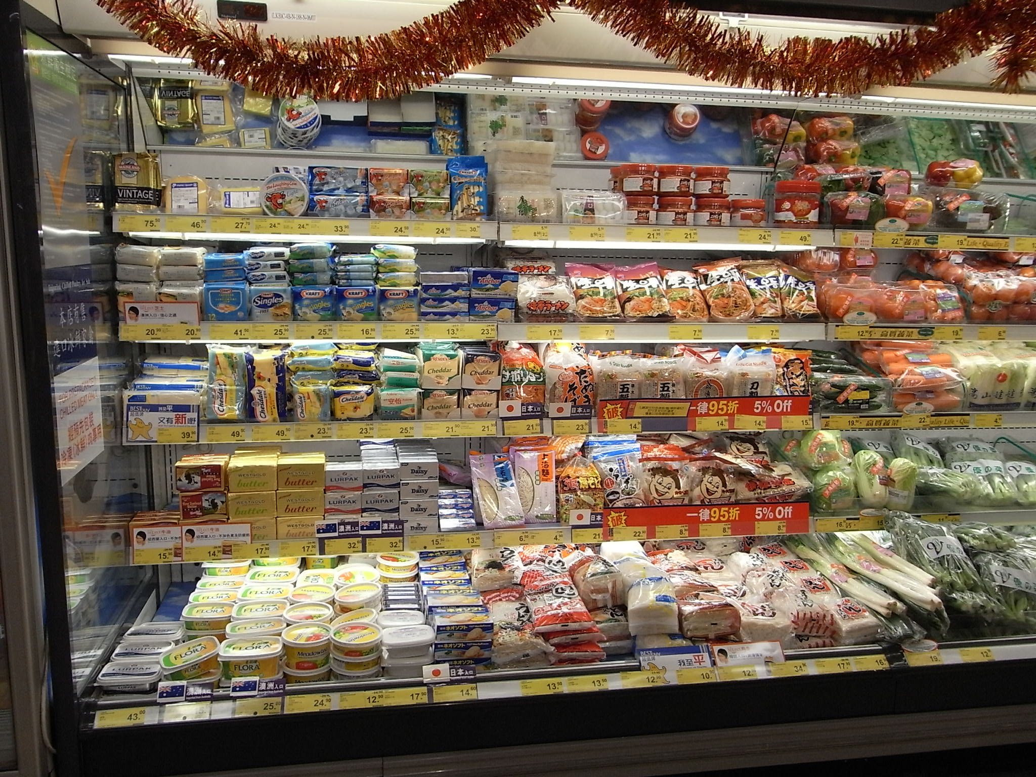 上環百佳